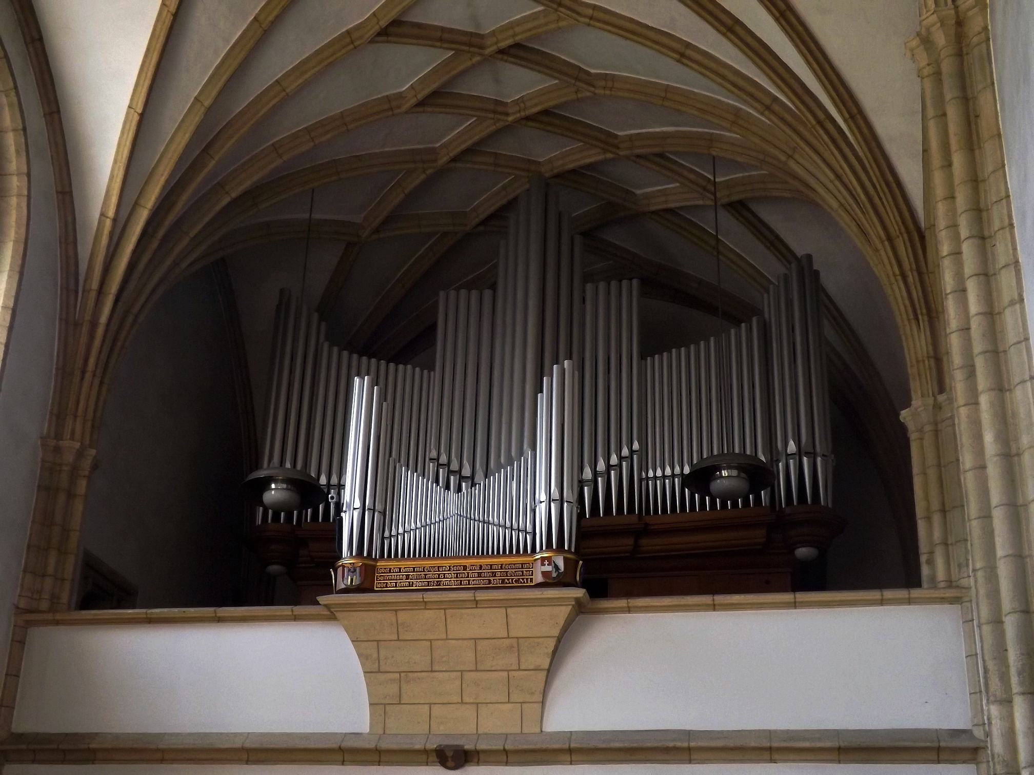 Built by Johann M. Kauffmann 1950.